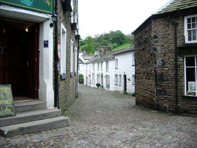 Main Street, Dent